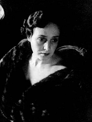 Portrait of Florence Vidor. April 17 1933.